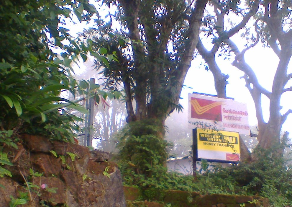 The post office at the Mango Orange village, officially called 'mangorange'.